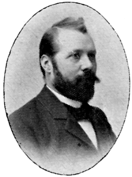 Image scanned from the book "Svenskt Porträttgalleri XX - Arkitekter, Bildhuggare, Målare m.fl. " ("Swedish Portrait Gallery XX - Architects, Sculptors, Painters, ") published 1901